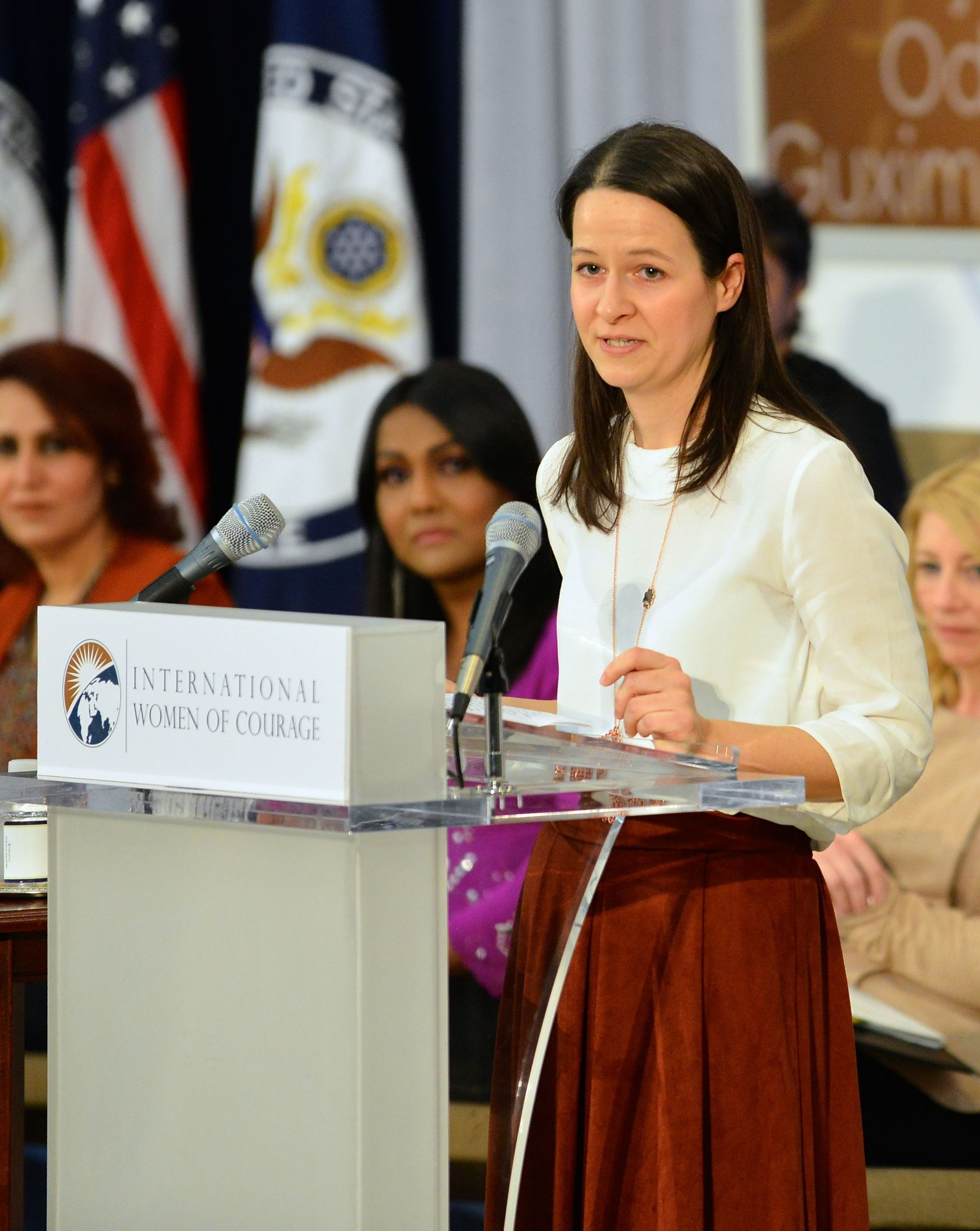 Zuzana Števulová of Slovakia Director of the Human Rights League delivers remarks at the Award Ceremony - IWOC 2016 International Women of Courage Awards 2016